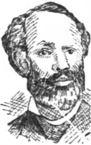 Sketch of Taylor from 1887 obituary